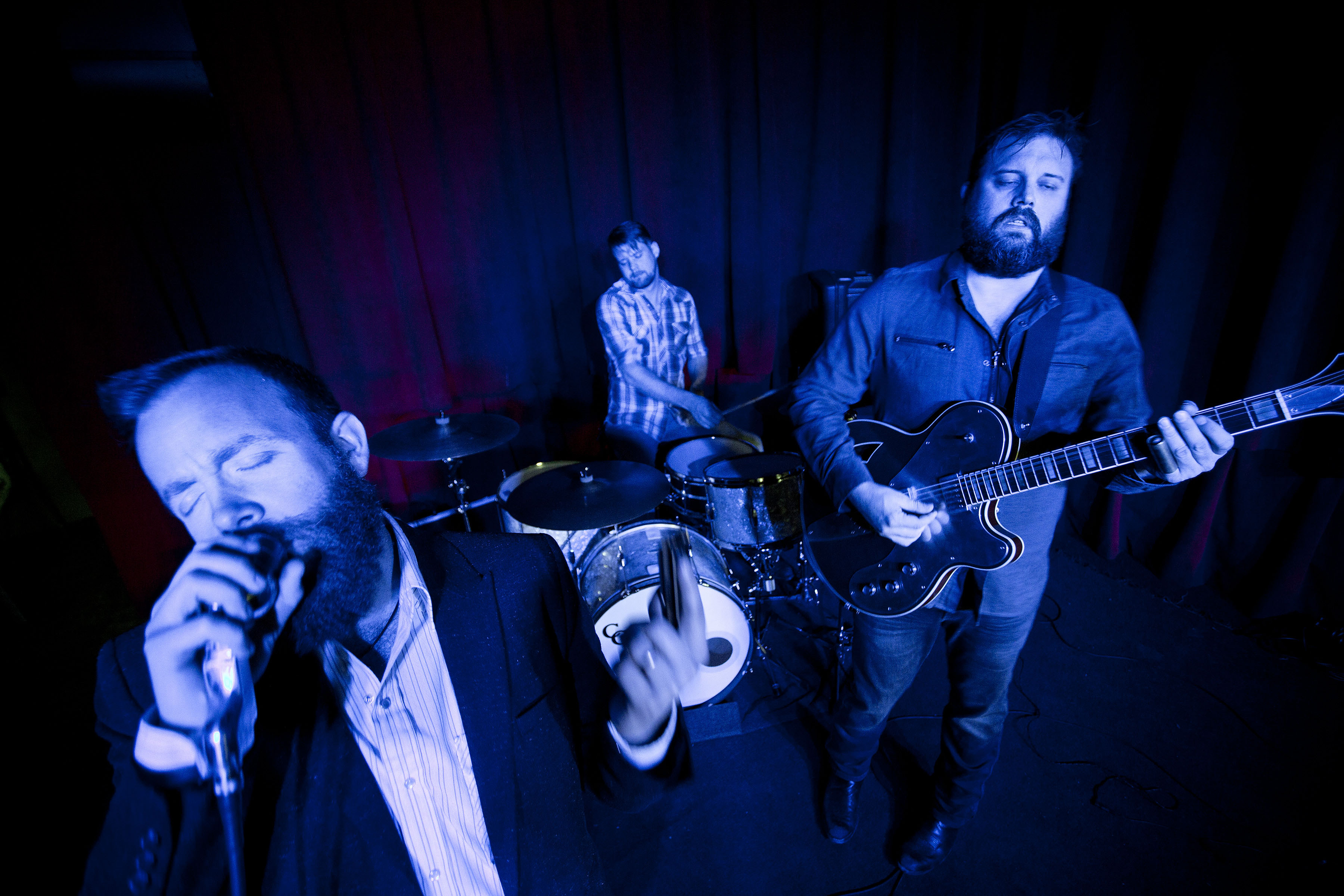 Live Blue: Moreland & Arbuckle (L-R: Dustin Arbuckle, Kendall Newby, Aaron Moreland)